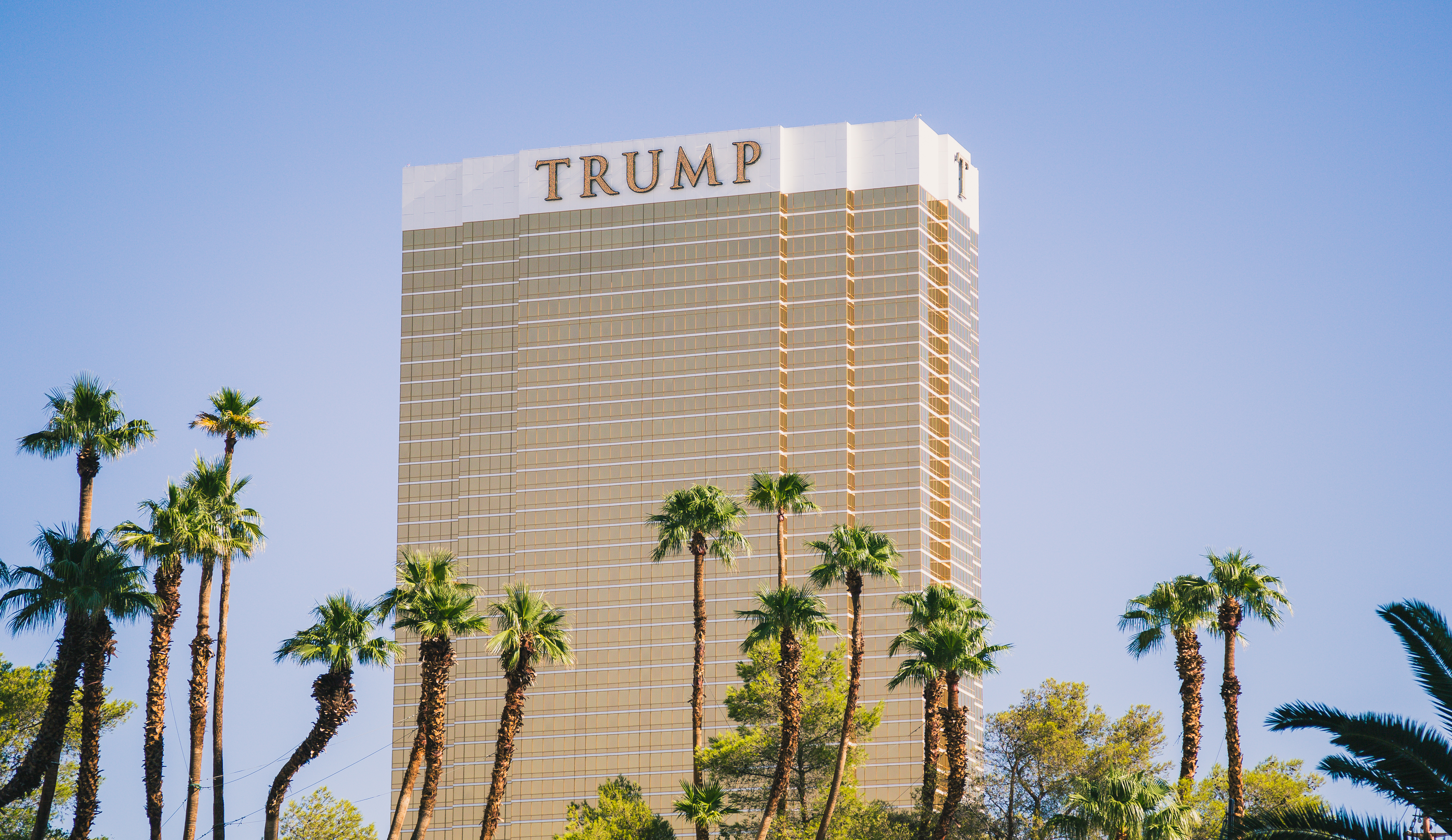 Donald Trump's hotel